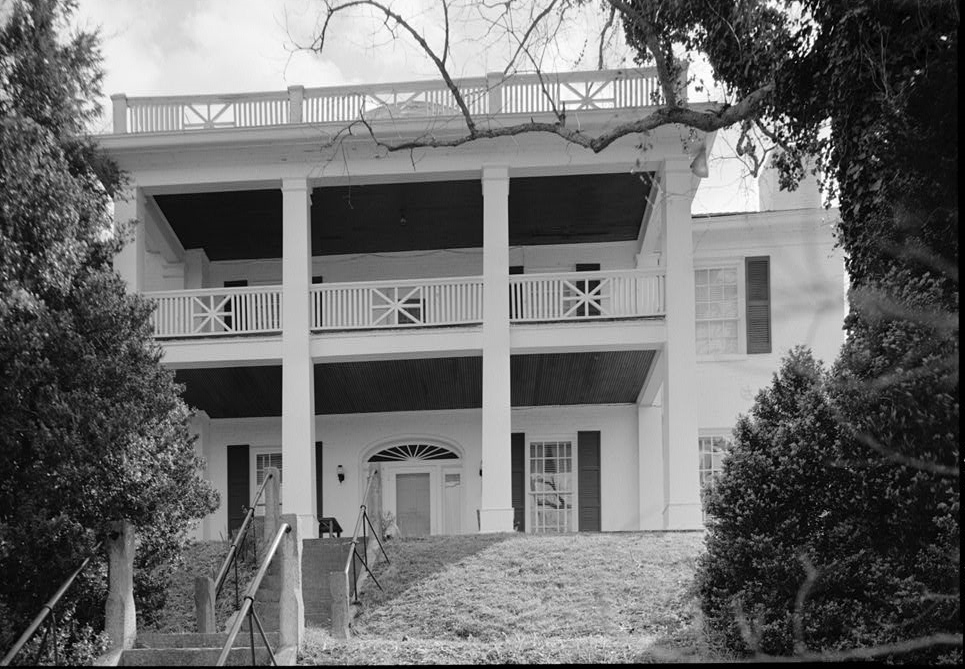 West elevation of Cherry Mansion, Savannah, Tennessee.